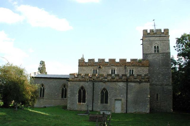 All Saints, Lathbury, Bucks